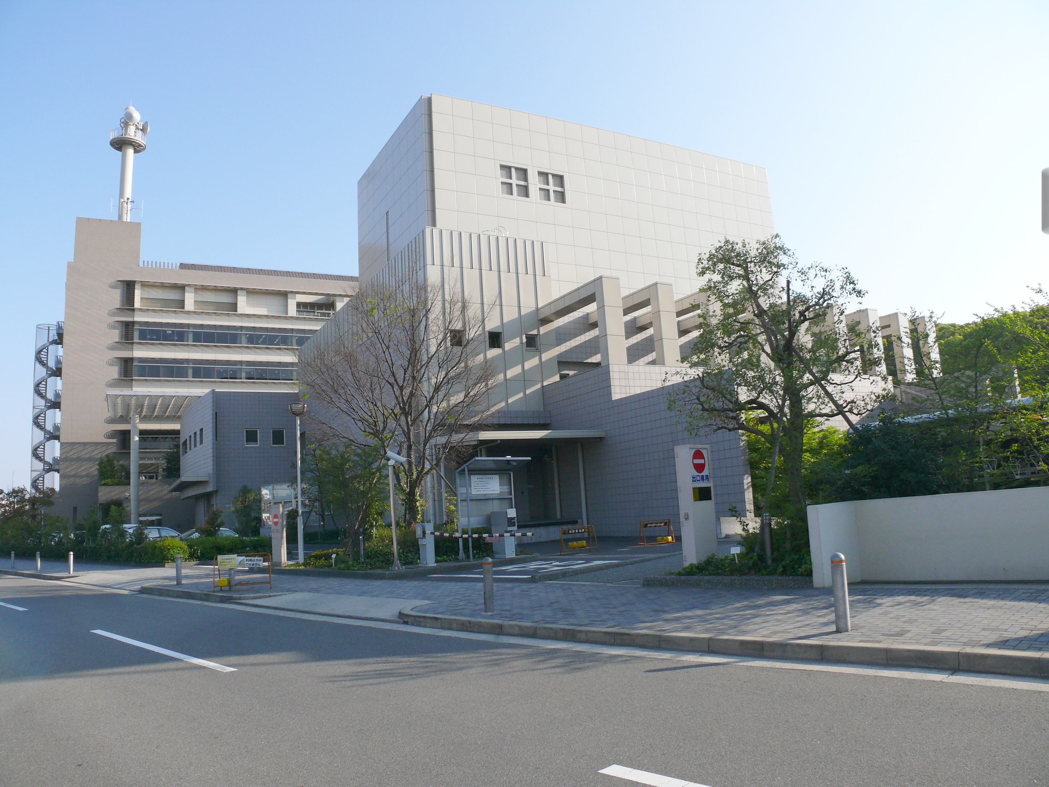 Atuta Office in Nagoya City, Japan